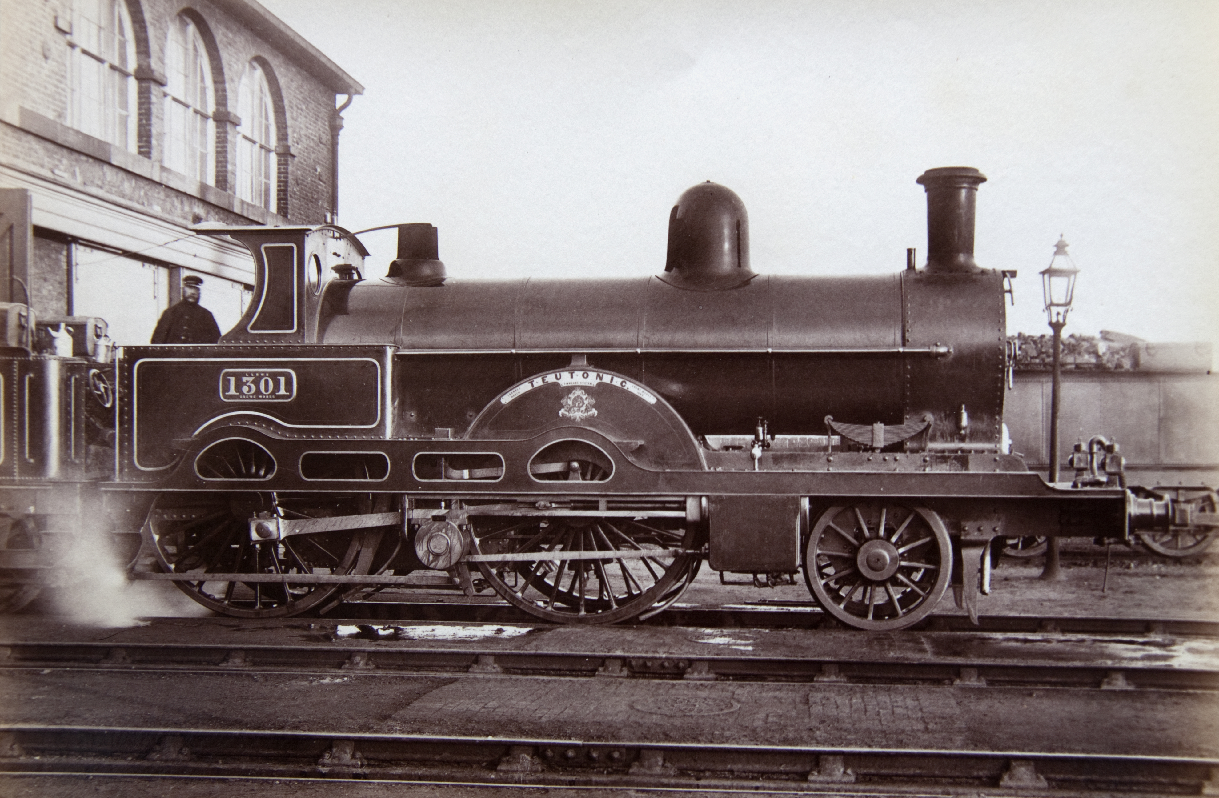 Teutonic was the first of a class of 10 Webb three-cylinder compounds built in 1889. This photo was taken from an old original photo we came across while helping to clear the house of a deceased friend. I have uploaded it to Flickr in the hope that it might be interesting to steam enthusiasts.